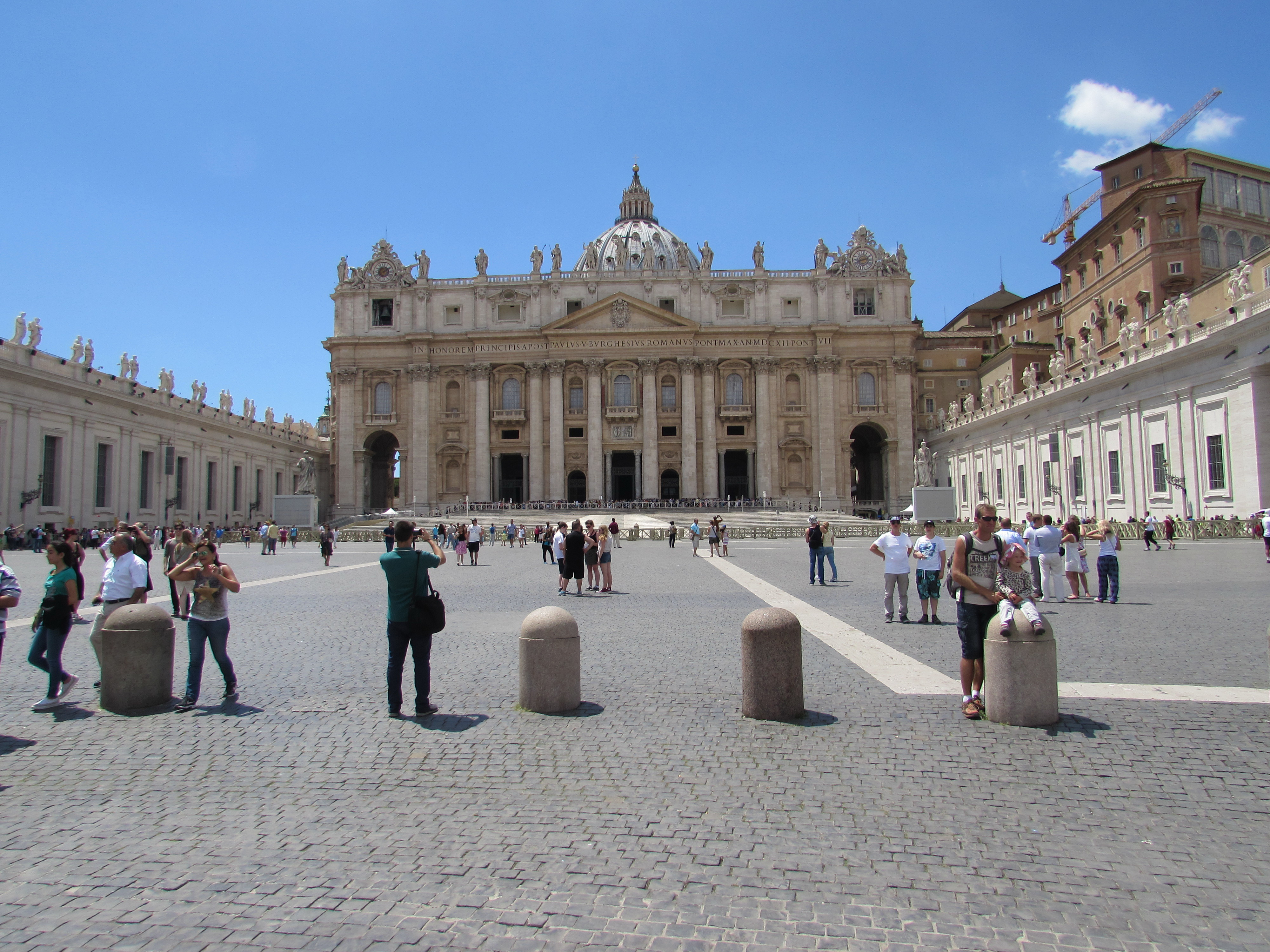 St. Peter's Basilica, Rome, Italy